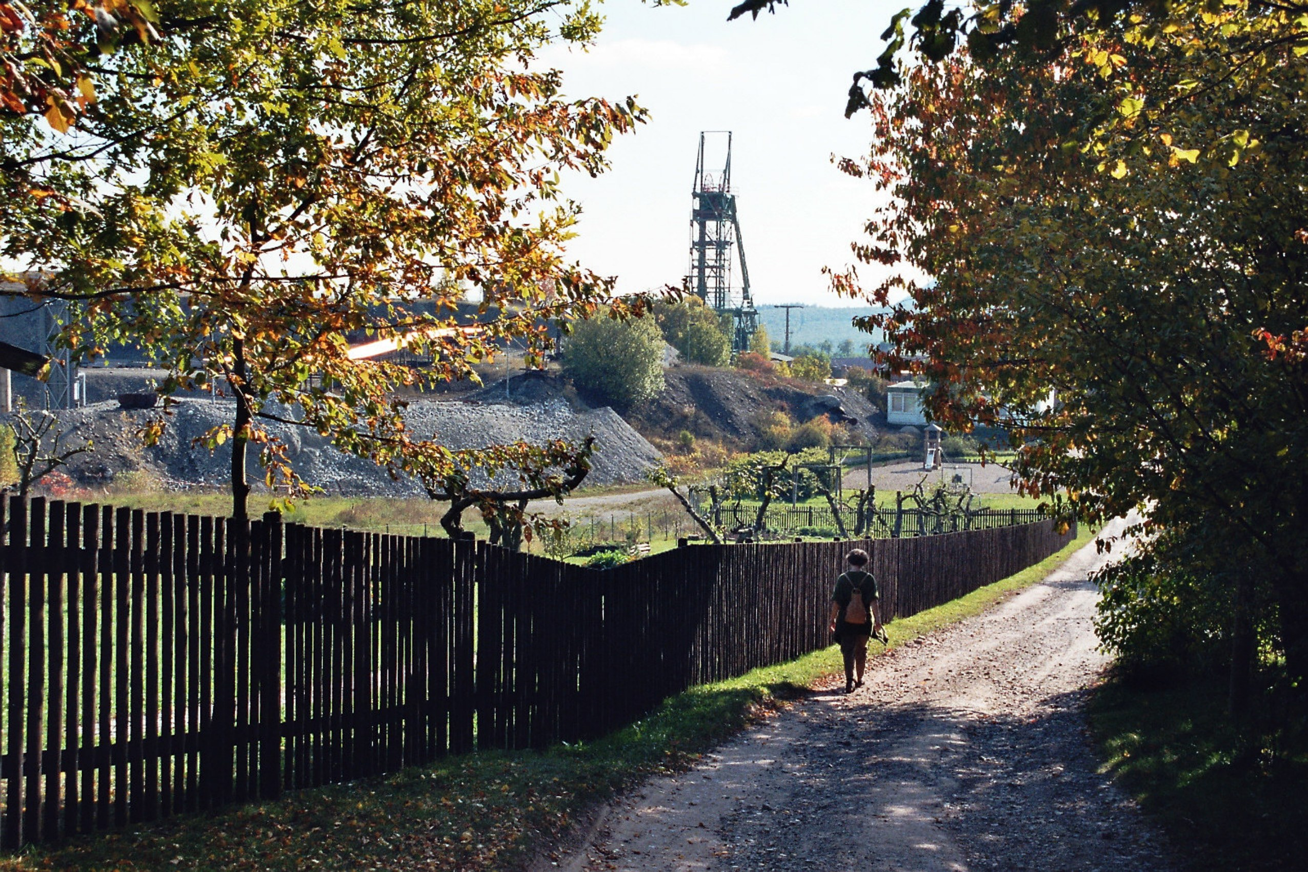 Wettelrode (Sangerhausen), the Röhrig Shaft